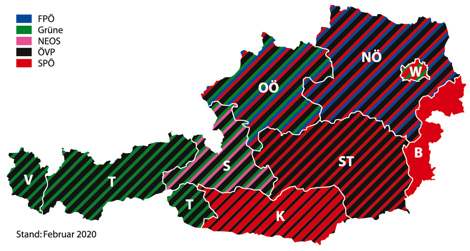 Governments of the Austrian states, February 2020